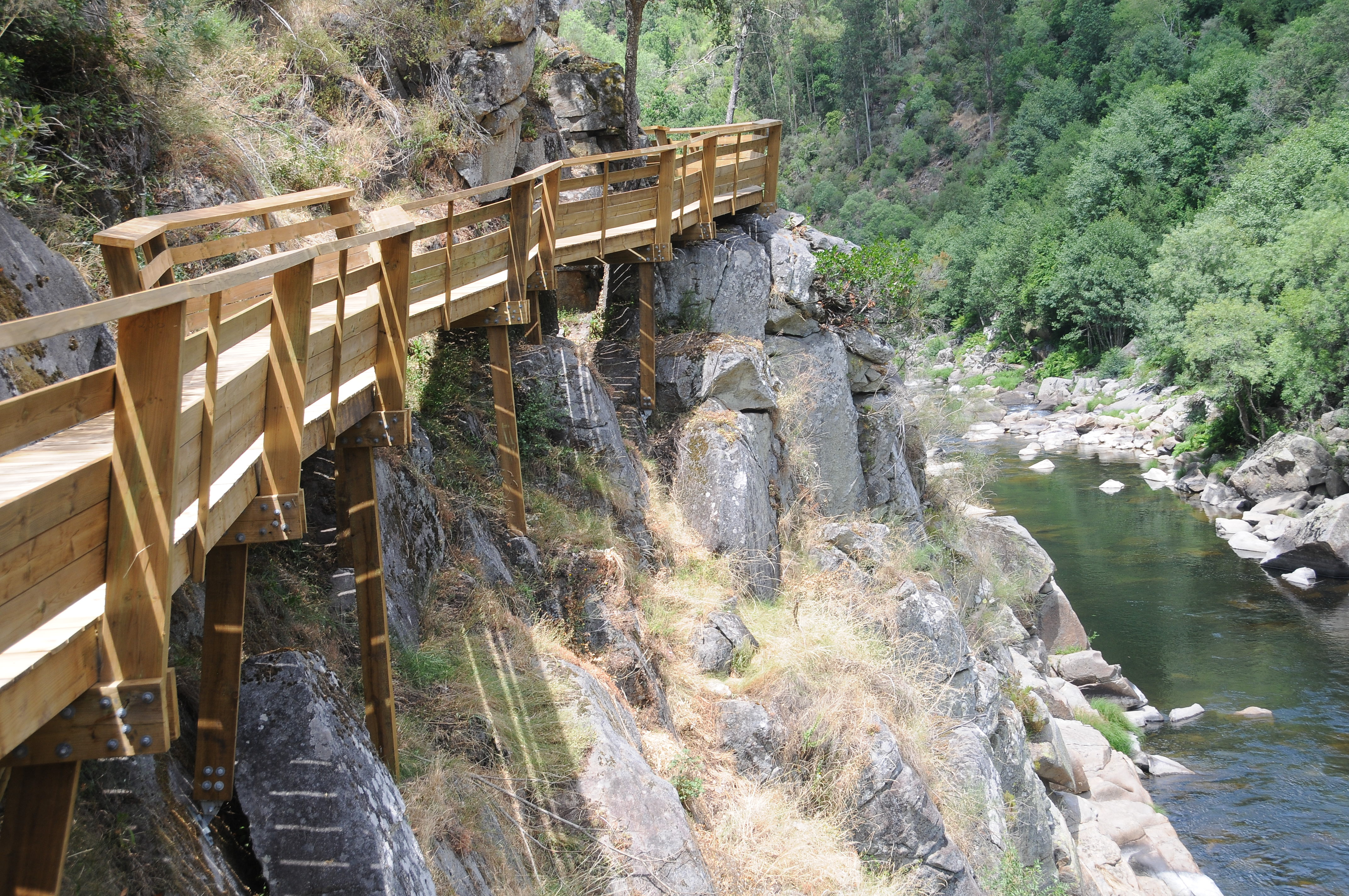 Paiva river in Arouca, Portugal.